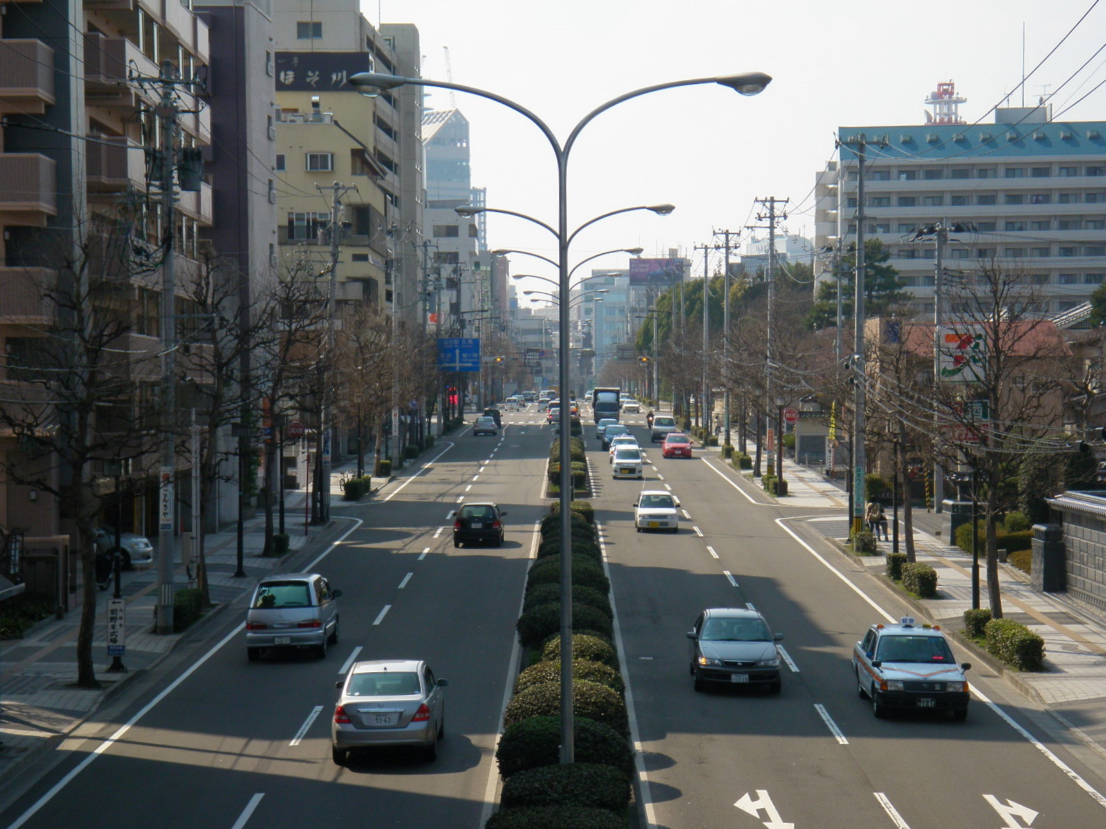 Shintera Avenue (Shintera-Dōri). Miyagino ward, Sendai, Miyagi prefecture, Japan. Westward from the border of Shitera 4 chōme and 5 chōme.